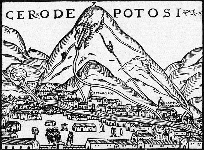 Cerro de Potosí. Grabado en madera, del libro Crónica del Perú, 1552, de Pedro Cieza de León.